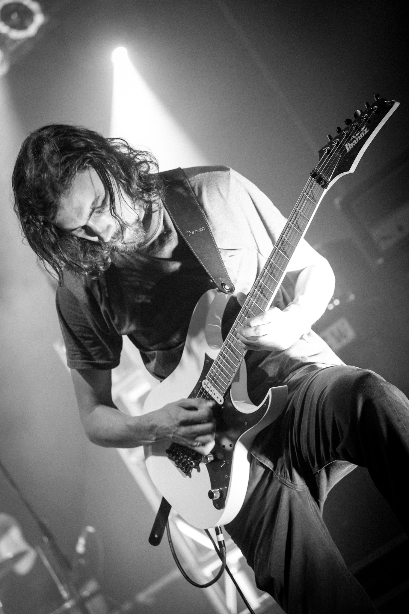 Fuck You and Die performing at the Euroblast Festival in Cologne, October 2014